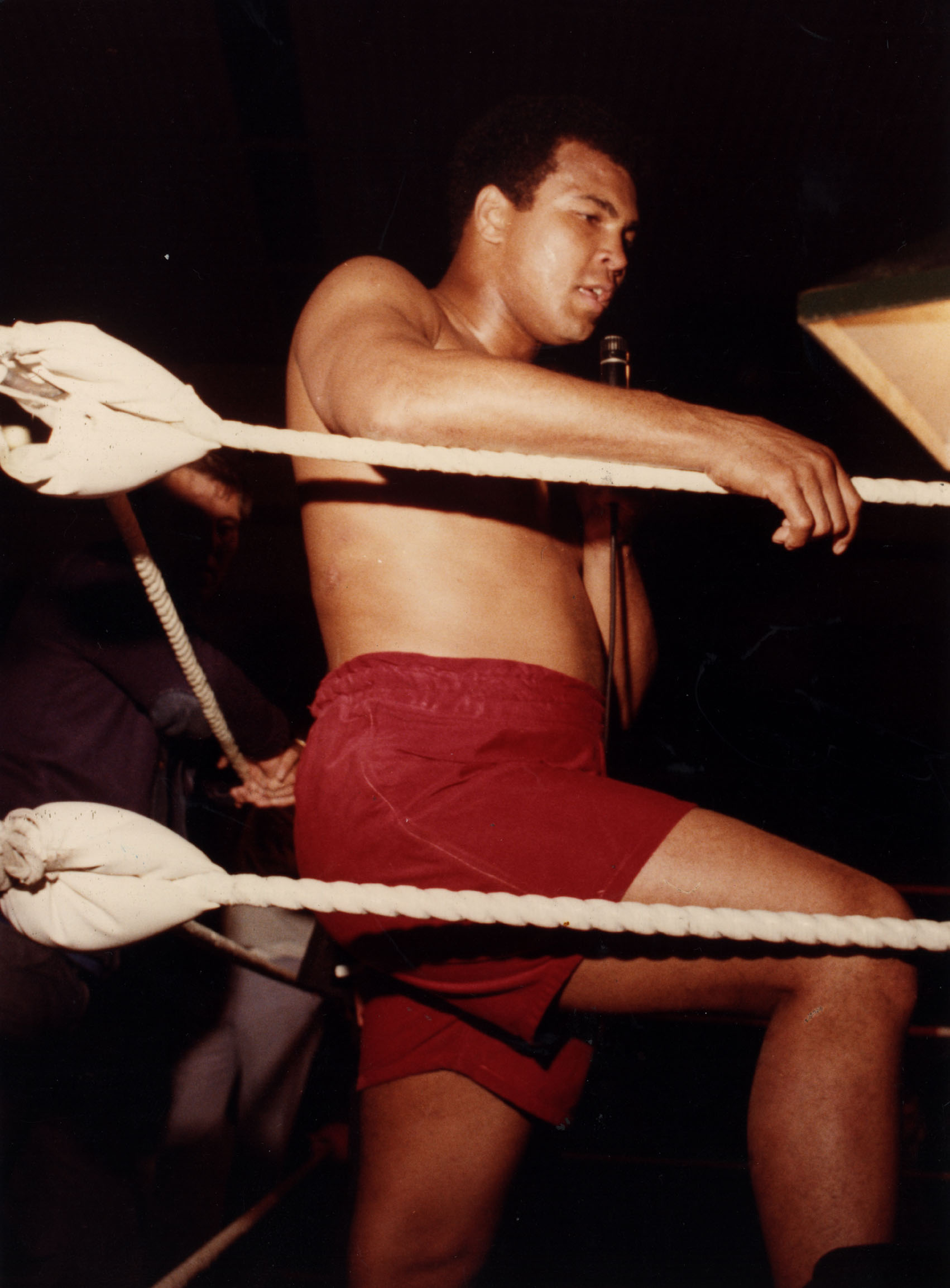 This is a photograph of Muhammad Ali during a Boxing Match in Washington, UK at some point in the 1970's. Reference: 5417/291/3 This collection of images has been assembled in support of the Washington Heritage Festival 2013. The celebration of Washington brings together a variety of different themes. Washington is a Town in the City of Sunderland, Tyne & Wear. It is traditionally associated with Coal Industry, and notably known as the home of the Washington Family, ancestors of the First President of the United States George Washington. However, in 1964 Washington was designated a New Town and drastically changed. With the introduction of new industry such as the Nissan Car Factory Washington experienced a huge redevelopment in both its economy and community. These Photographs are taken from the Records of the Washington Development Corporation; held at Tyne & Wear Archives. The records document this change in industry, landscape and community in Washington between 1964 & 1988, and consist of many photographs. For more information on the Washington Heritage Festival, 21st September 2013 please click here . (Copyright) These images are Crown Copyright. We're happy for you to share these digital images within the spirit of The Commons. Please cite 'Tyne & Wear Archives & Museums' when reusing. Certain restrictions on high quality reproductions and commercial use of the original physical version apply though; if you're unsure please